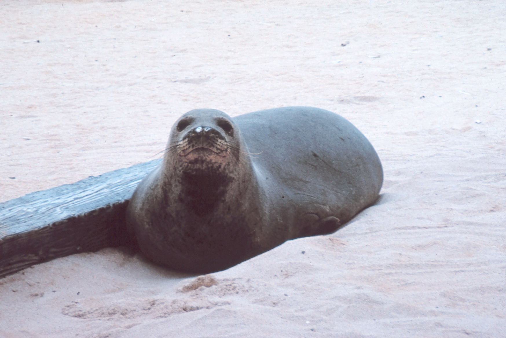 Monachus schauinslandi taken at Hawaii, Laysan Island, Pacific Ocean.